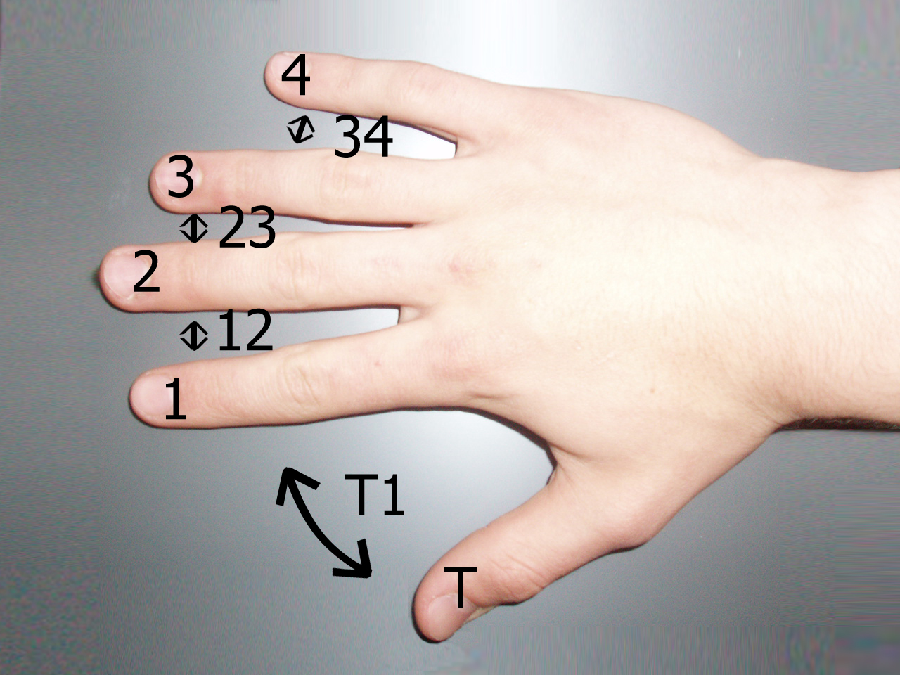 Penspinning finger slots